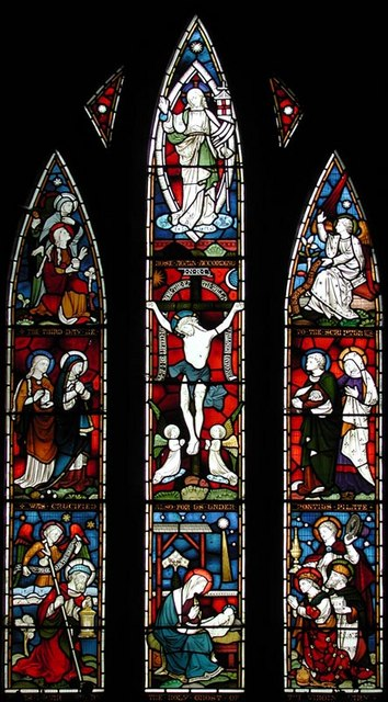 Church of England parish church of St Mary the Virgin, North Aston, Oxfordshire: east window with 19th century stained glass